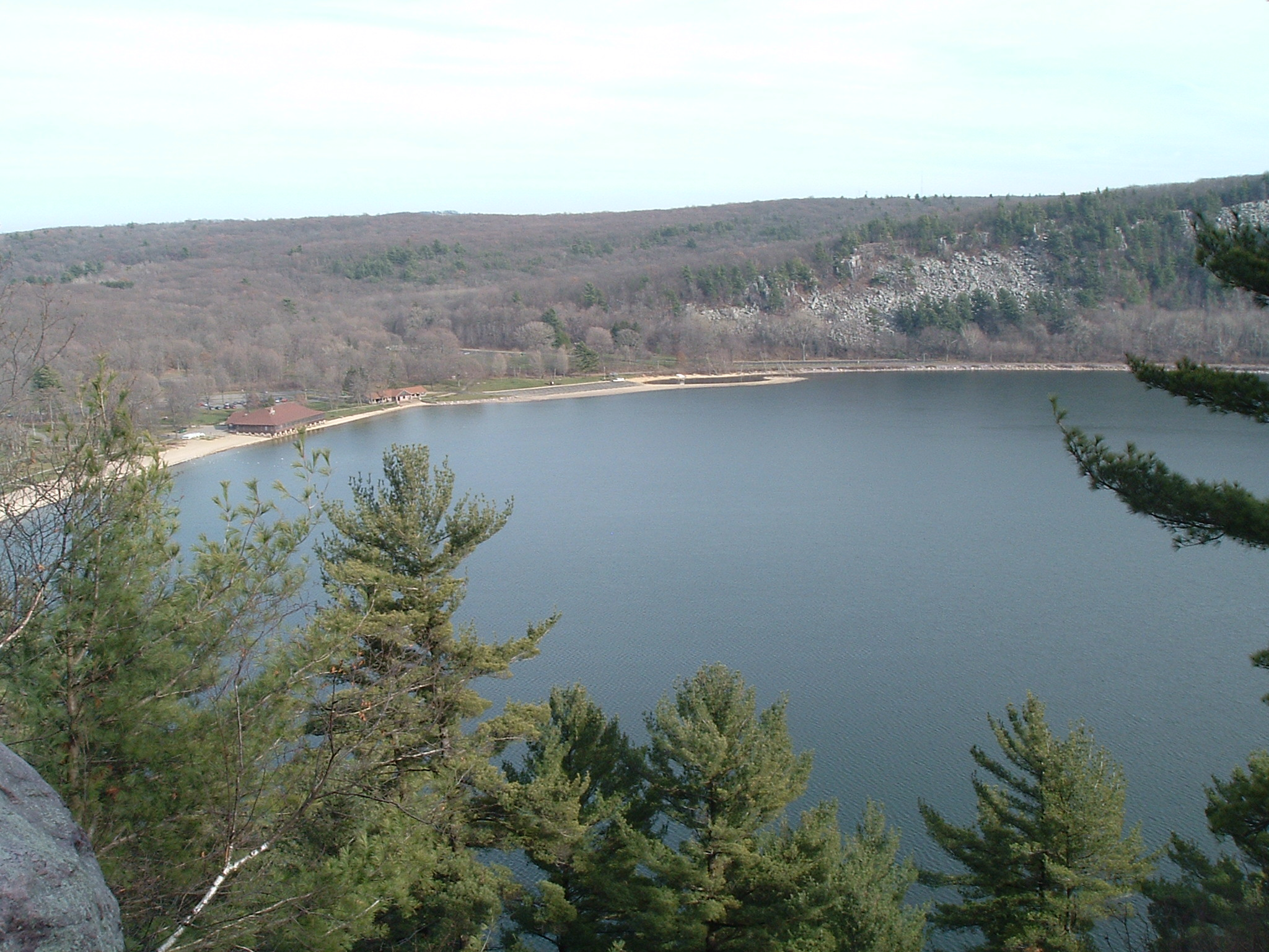 Devil's Lake in Devil's Lake State Park . Taken by me November, 2004.